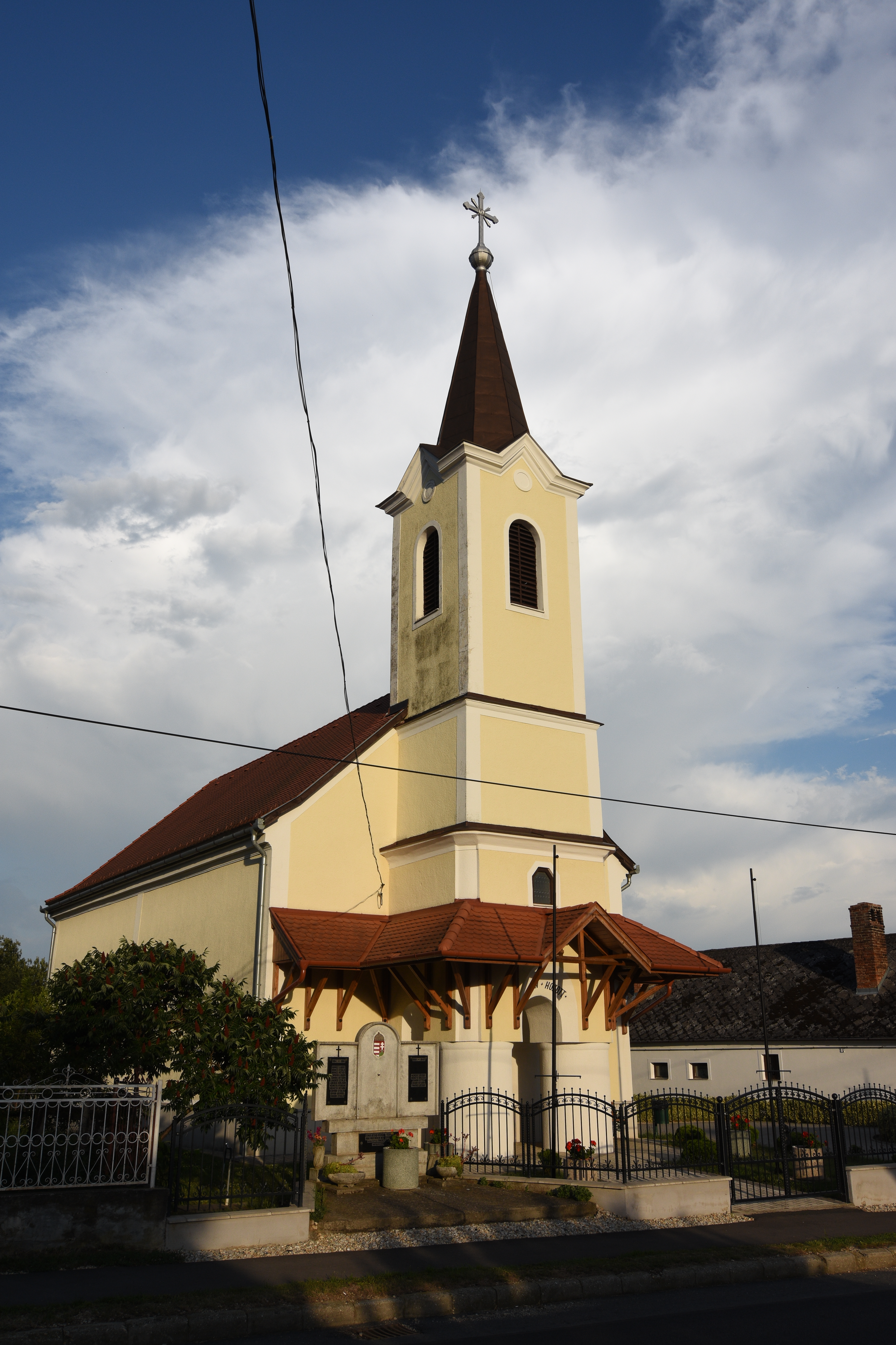 Church Hagyárosbörönd Zala